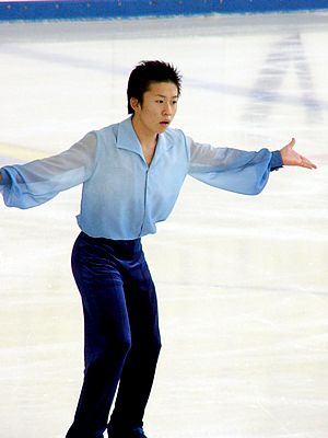 Hirofumi Torii during his free skate at the 2004 Junior Grand Prix event in Germany